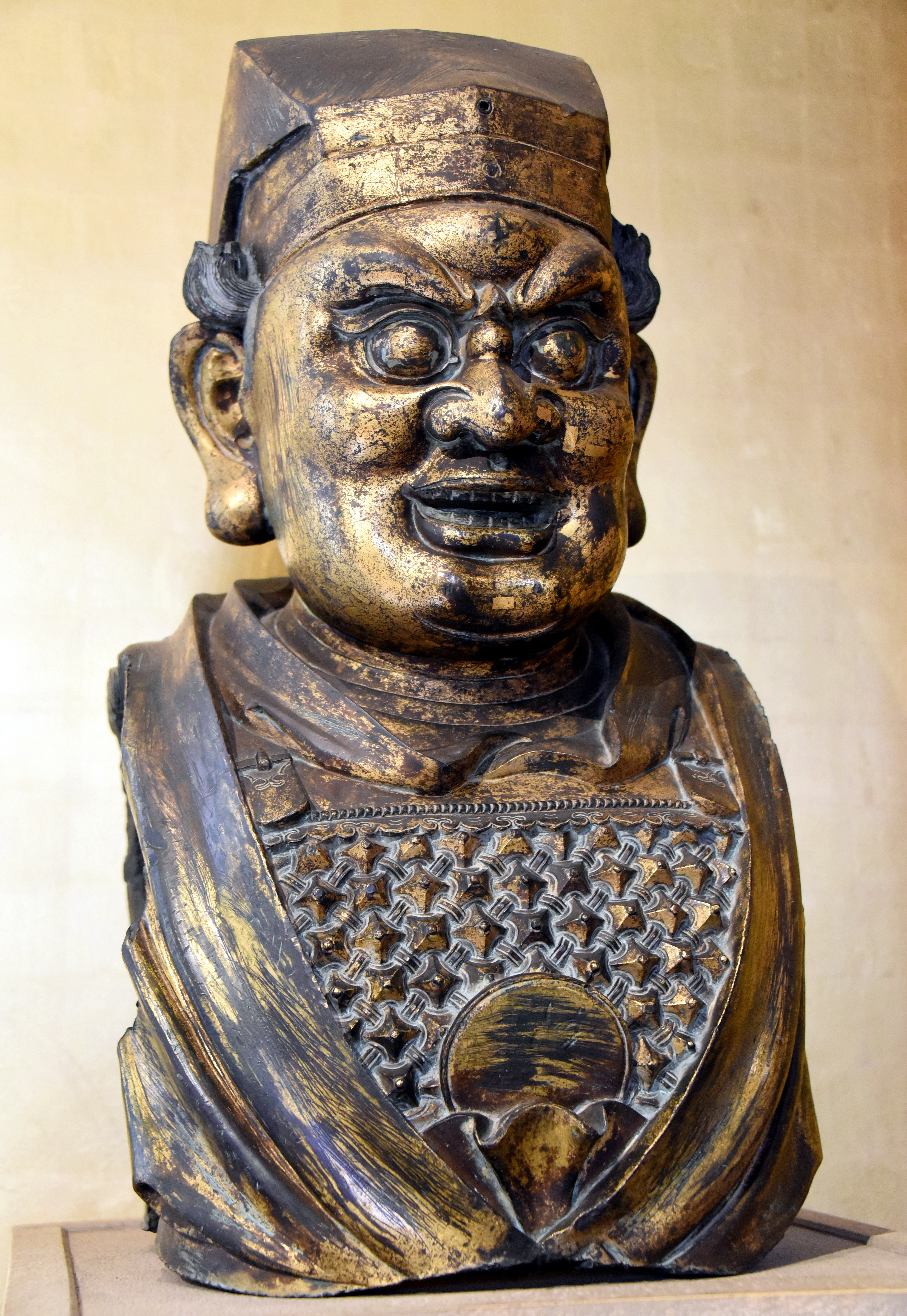 Bust of a Buddhist guardian figure; gilt bronze. Fierce, armored guardian figures were placed at the entrances Buddhist temples in a protective capacity. This figure may be one of the Four Guardian Kings (Lokapala). Many of them, like this one, were much larger than life-size. In addition to bronze, iron was a favorite material. From the People's Republic of China. Yuan Dynasty, 14th century CE. On display at the British Museum in London.